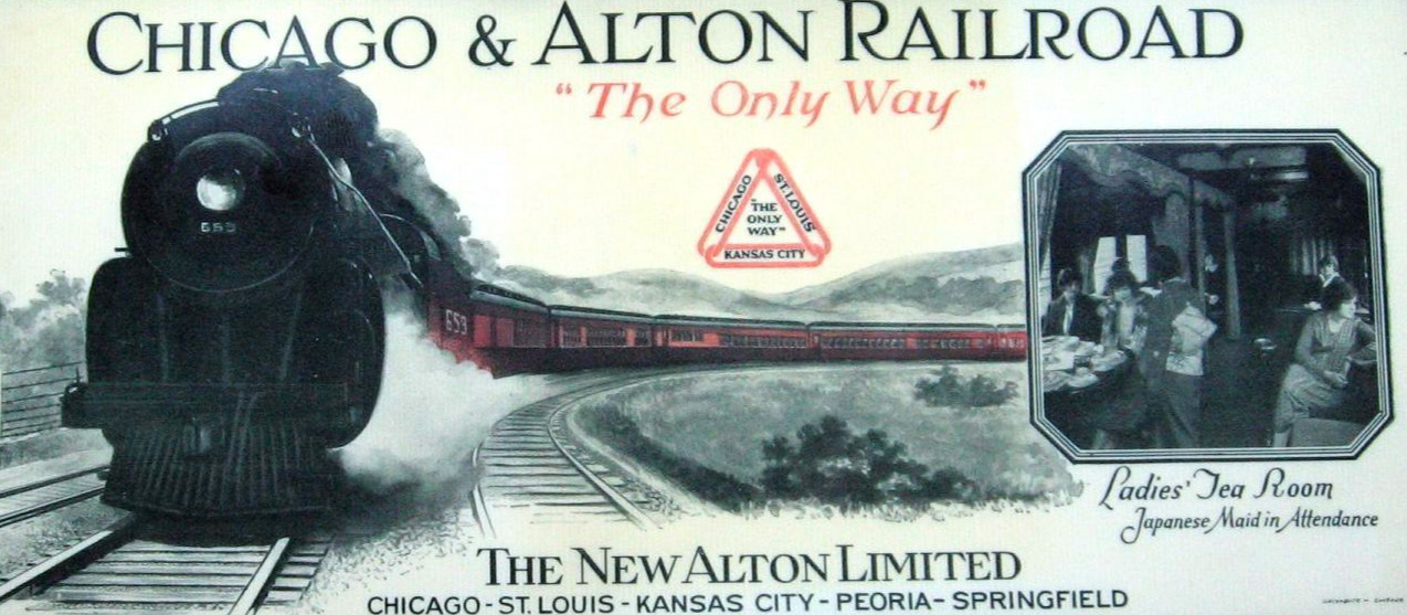 Celluloid cover of an ink blotter used as a promotion for the Alton Railroad's Alton Limited. The train received two new trainsets in 1924, which were lavish. At the time, the cost was US $1 million. The trains had many luxury features, including the Japanese tea room shown on the blotter cover.